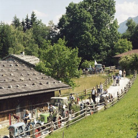 Tradition in Bavaria (Germany). Traktorentag Glentleiten. Photograph from the series Homeland, published in: Bohnenstengel, A. (2002): Bayern, Page 84–87